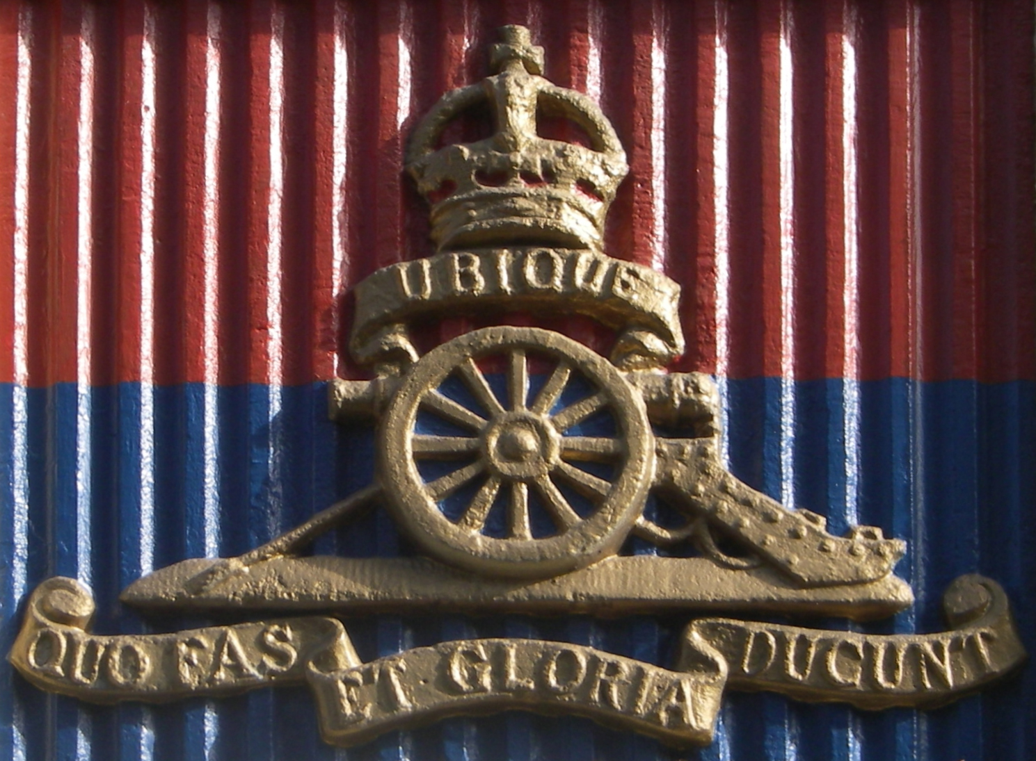 Photo of the crest of the 15th Field Regiment, RCA